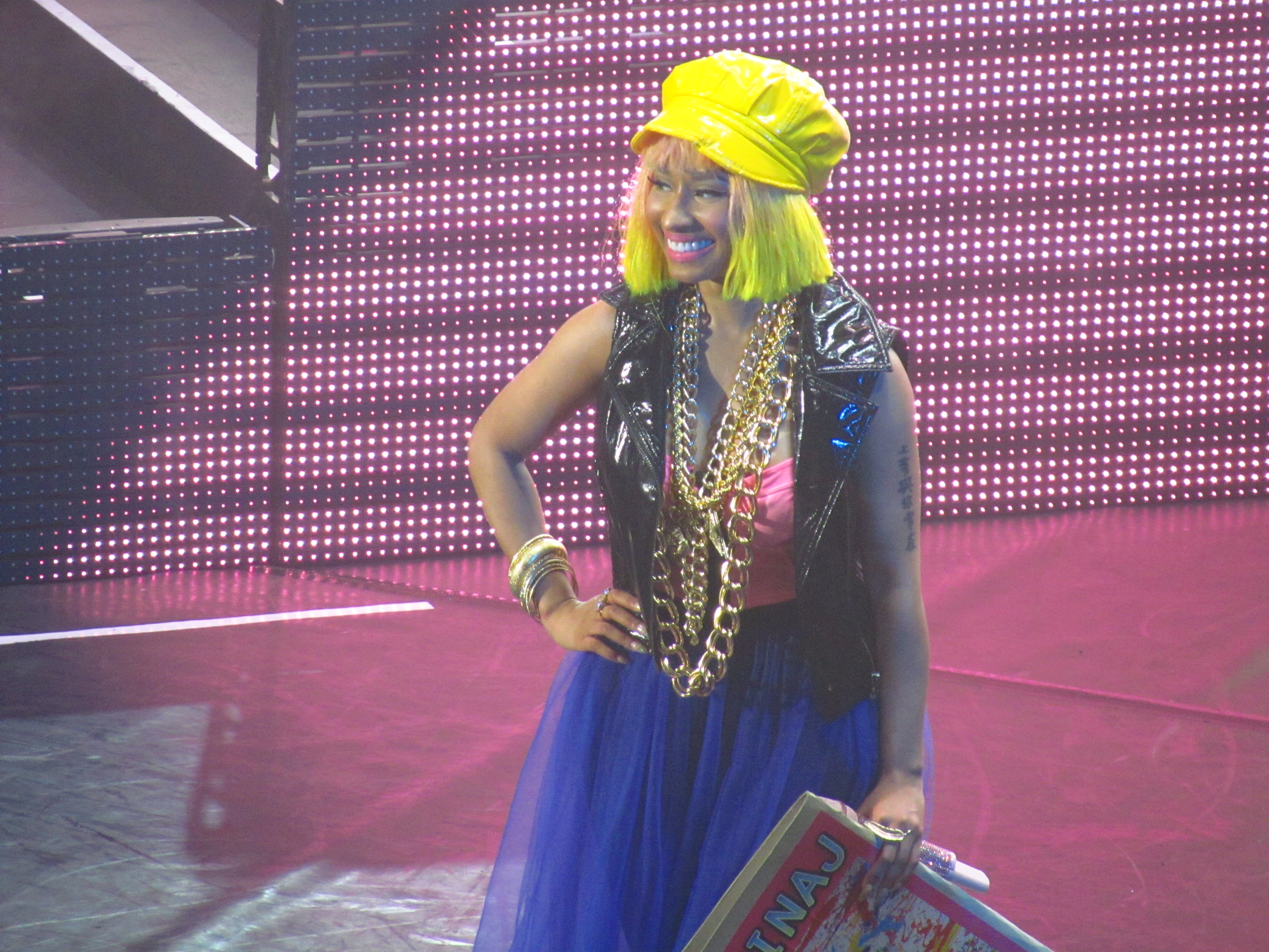 Nicki Minaj performing at the HMV Hammersmith Apollo on June 25, 2012 in London, England on the Pink Friday Tour.